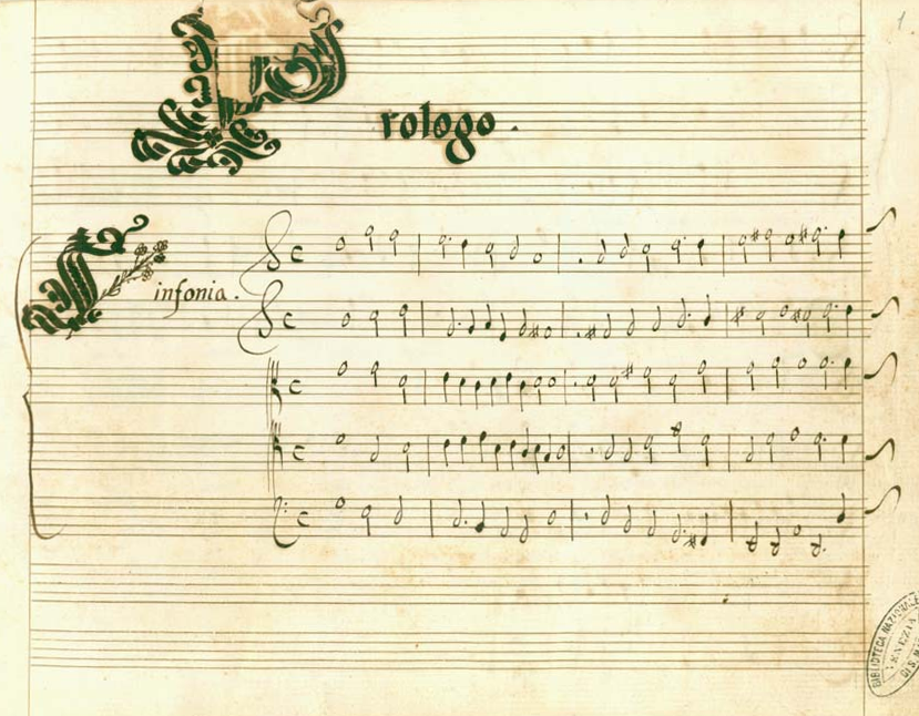 Cavalli - Didone - first page of the prologue